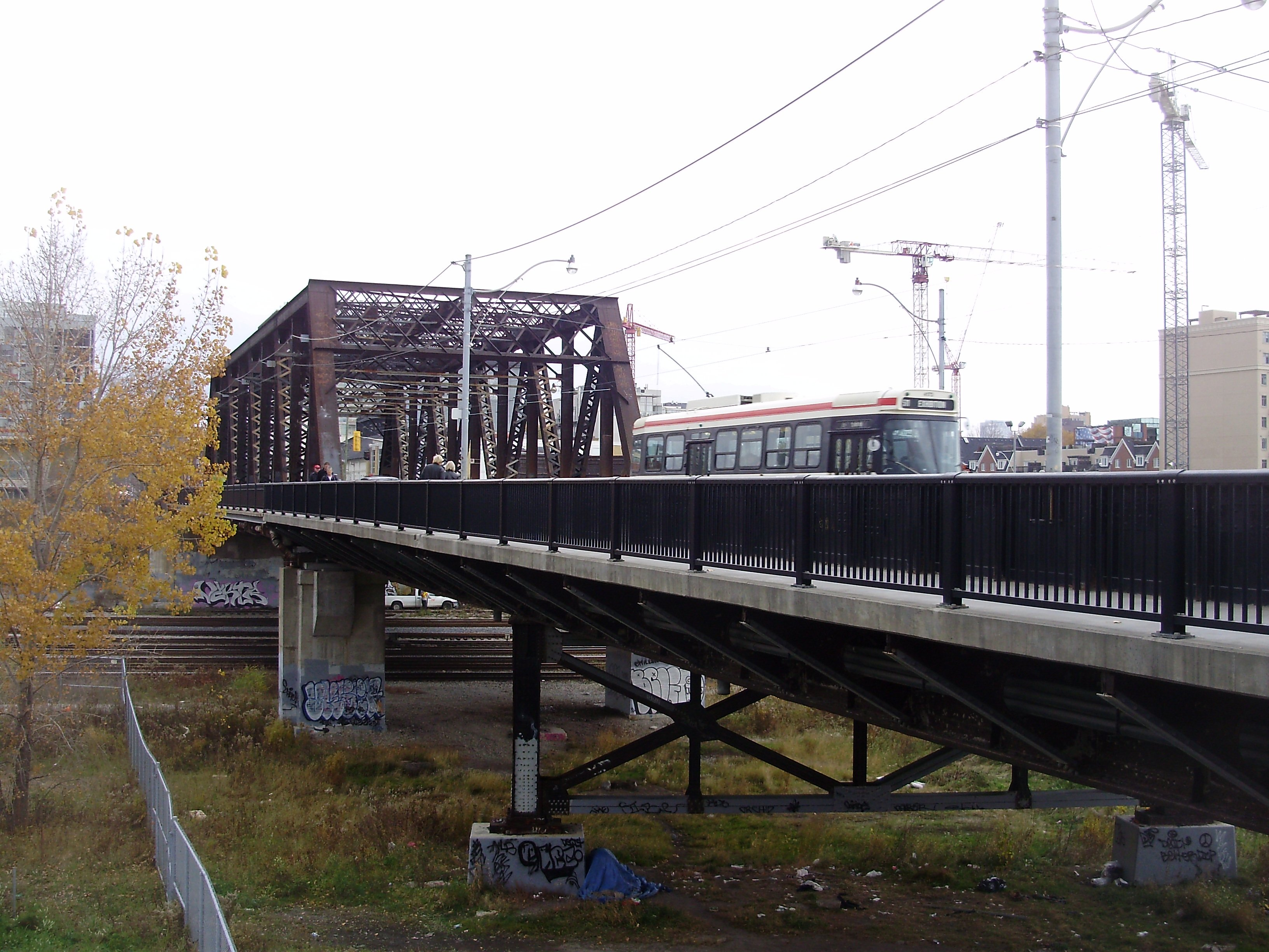 CLRV #4170 speeds south along Bathurst Street, just north of Fort York Boulevard, in downtown Toronto, Ontario, Canada.